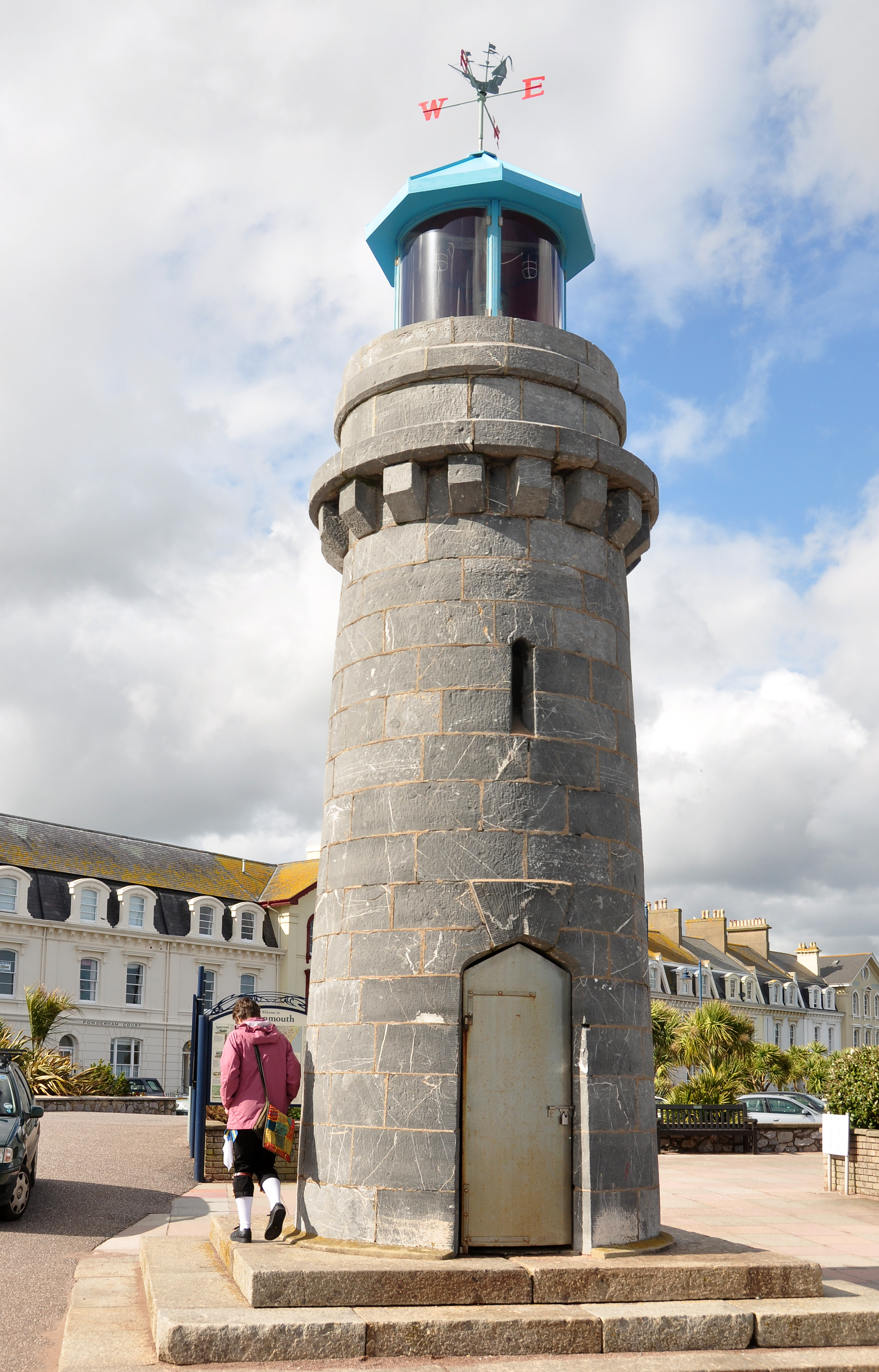 The lighthouse on the promenade at Teignmouth, Devon.